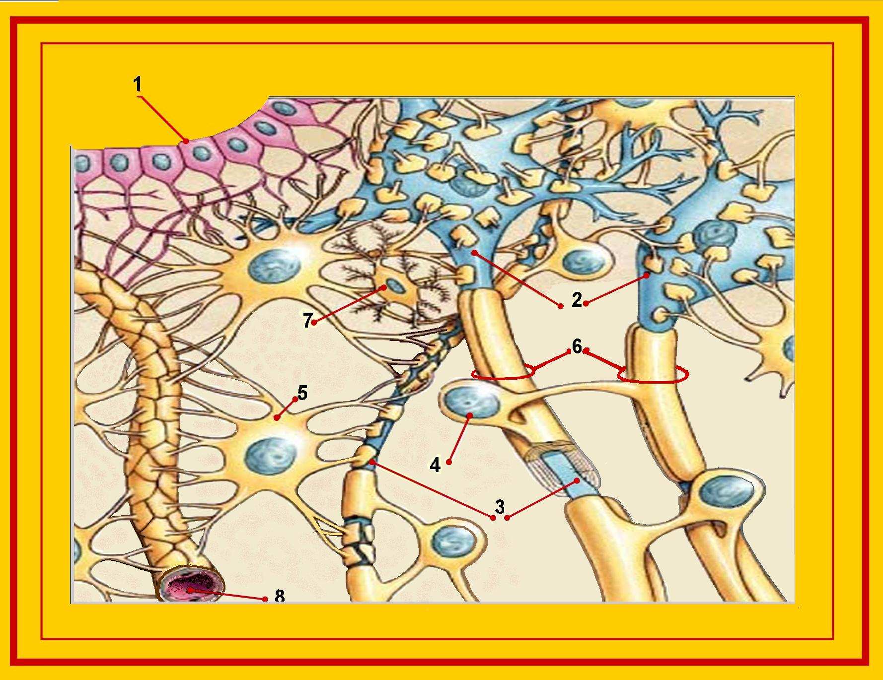 Neurological tissue features: 1.)Ependymocites, 2.)Neurons, 3.)Axons, 4.)Oligodendrocyte, 5.)Astrocyte, 6.)Myelination, 7.)Microglial cell, 8.)Capilary.